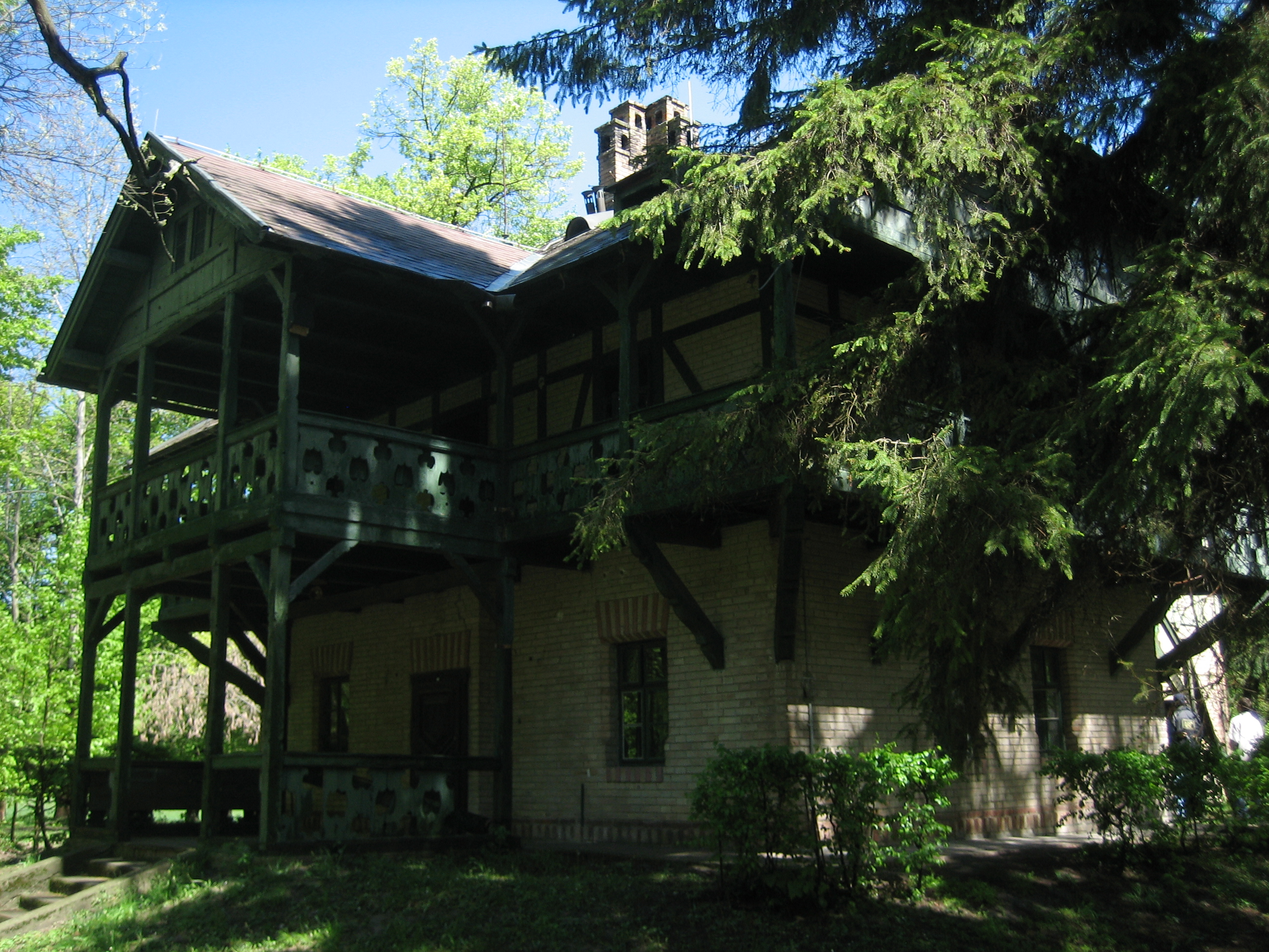 Country Villa in the complex of the Tikveš Castle in Baranja, Croatia (late 19th cent.) / Ladanjska vila unutar kompleksa dvorca Tikveš u Baranji (kraj 19. st.)